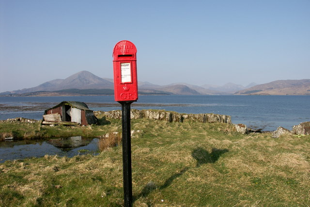 Looking west, past the only Pabay post box, towards the Isles of Skye and Scalpay, Inner Hebrides, Scotland. The large hill to the left is Beinn na Caillich (732m) on Skye. Scalpay is to the right, with the Caolas Scalpay between it and Skye.